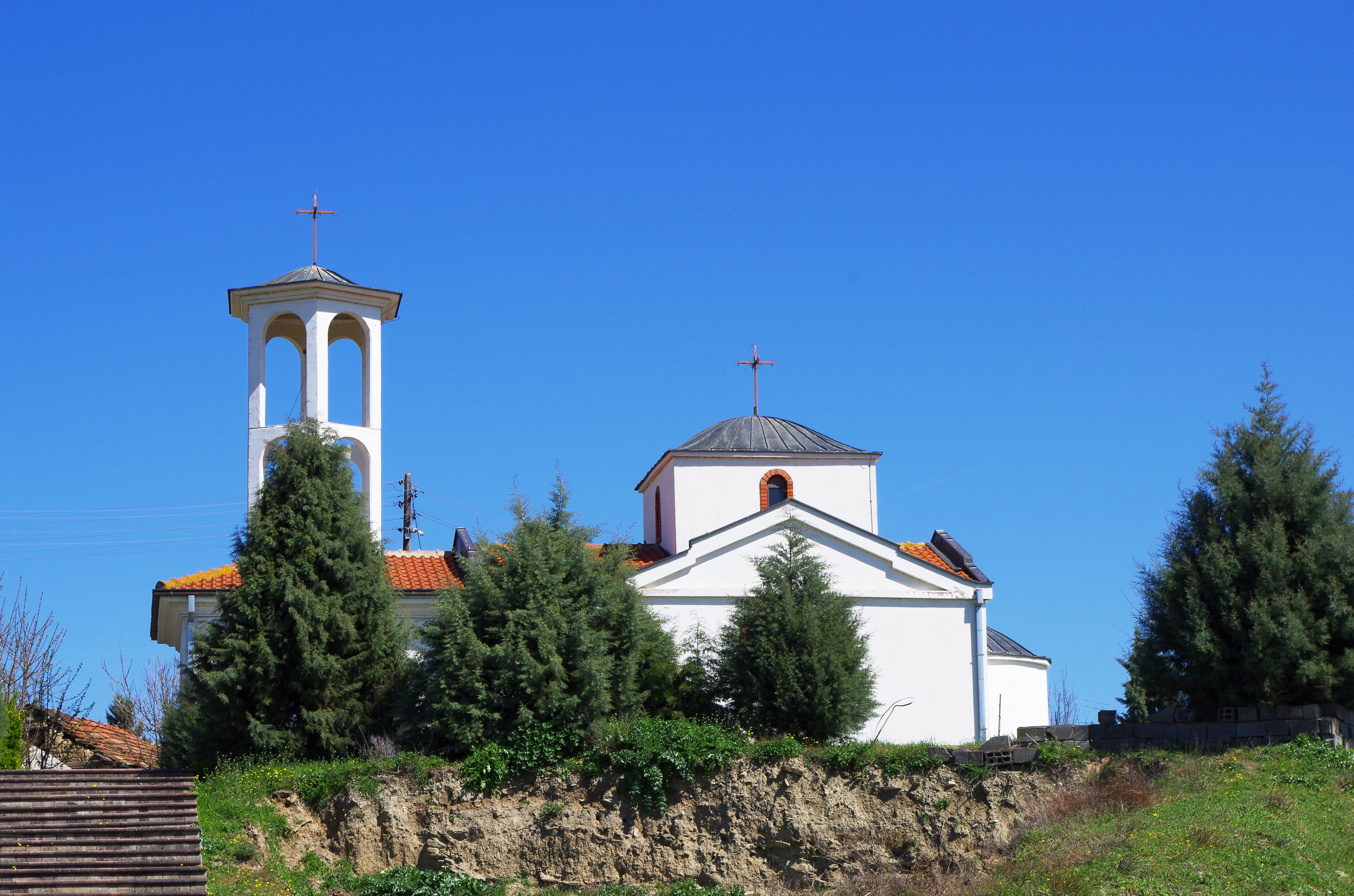 Church in the village Krivolak